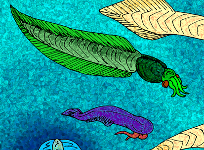 Reconstruction of the enigmatic Burgess Shale beast, Nectocaris pteryx, in comparison with Amiskwia.